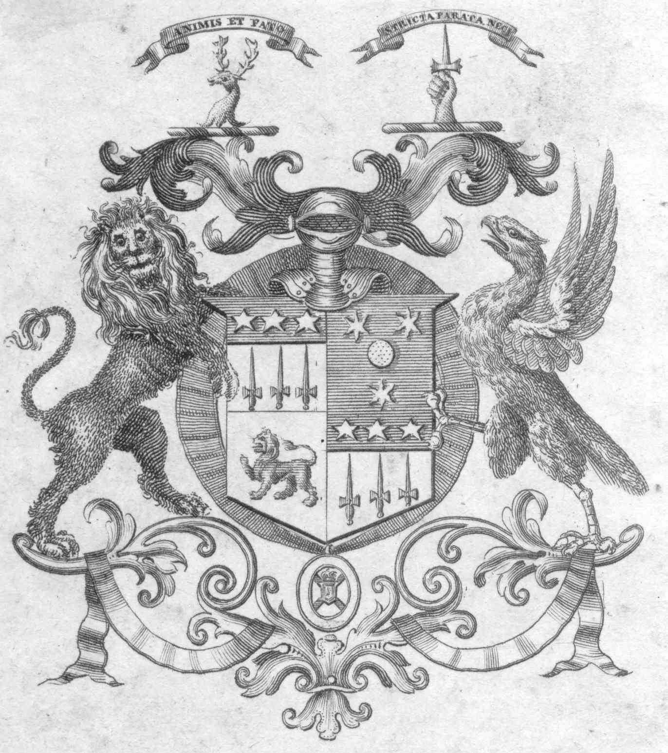 bookplate of Sir (aka Peter) Patrick Budge Murray Threipland, 4th Bart. of Fingask Castle (1762-1837). Scan by R. de Salis, of original plate in a copy of a 1761 Book of Common Prayer.Rodolph 22:57, 18 May 2007 (UTC)